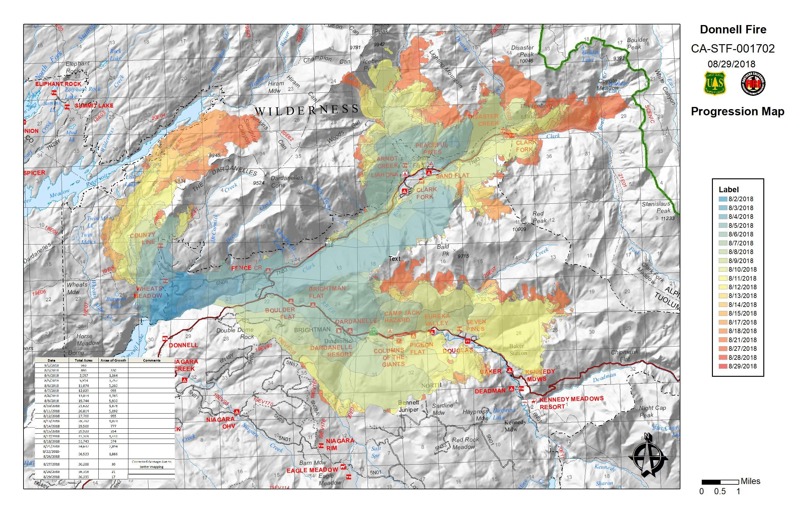 Map of Donnell Fire, showing fire progression by day from and after August 2, 2018. Squares in the grid are sections of approximately one mile by one mile, or 640 acres. The Bennett Juniper is in section 5, toward the bottom of the image in center right.